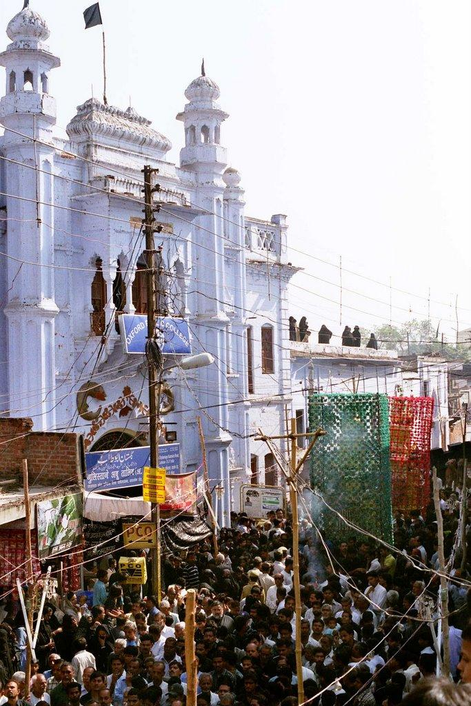 Indian Shiite Muslims take out a Muharram procession in Lucknow, India, Jan, 2008. Muharram is a month of mourning when Shiite Muslims recall the seventh-century death of Imam Hussain, grandson of Prophet Mohammad. This photo was taken by Sayed Mohd Faiz Haider Rizvi.